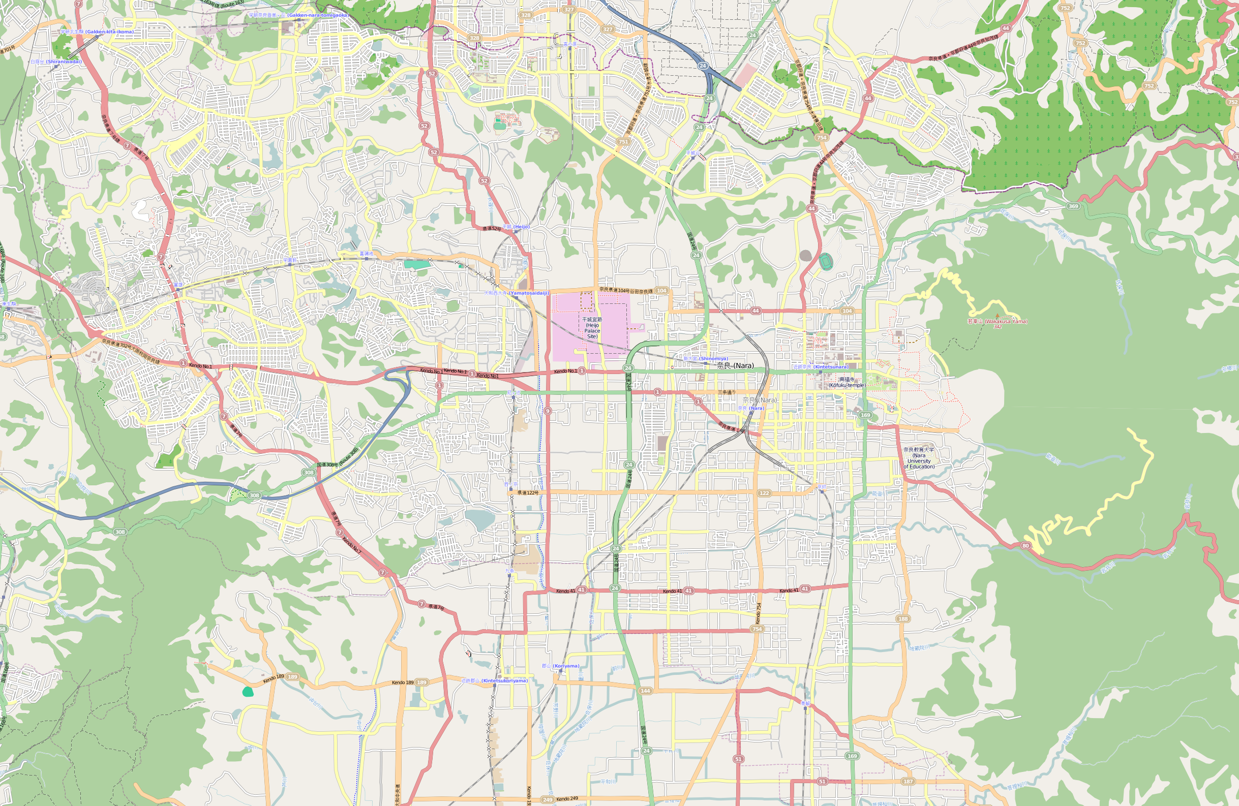 This map of Nara was created from OpenStreetMap project data, collected by the community. This map may be incomplete, and may contain errors. Don't rely solely on it for navigation.